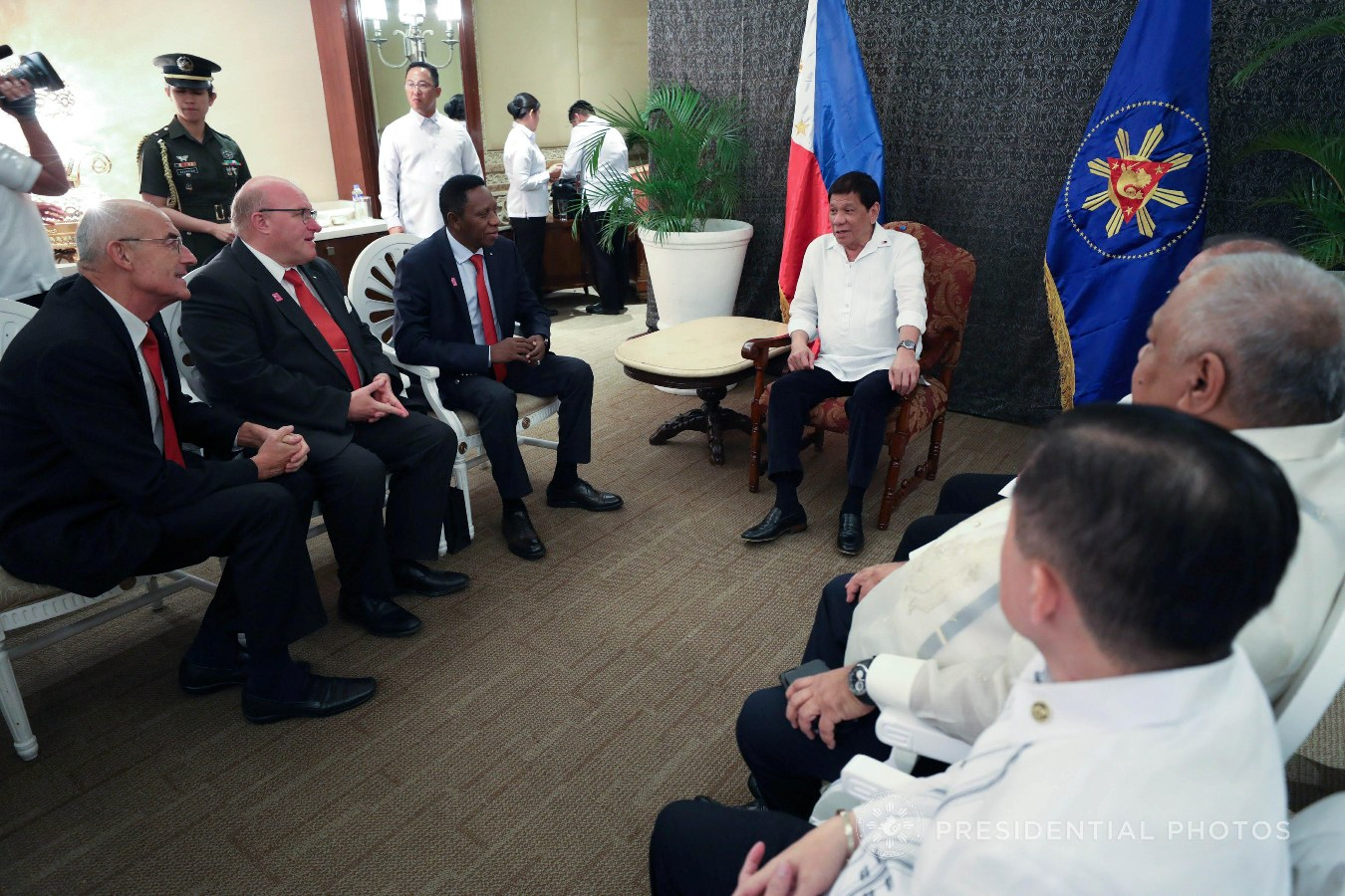 President Rodrigo Roa Duterte meets with officials of the Fédération Internationale de Basketball (FIBA) who paid a courtesy call on the President at the Manila Hotel on October 19, 2017. Joining the President are businessman Manuel Pangilinan, Executive Secretary Salvador Medialdea, Philippine Sports Commission (PSC) Chairman William Ramirez​,​ and Special Assistant to the President Christopher Lawrence Go. ROBINSON NIÑAL JR./PRESIDENTIAL PHOTO